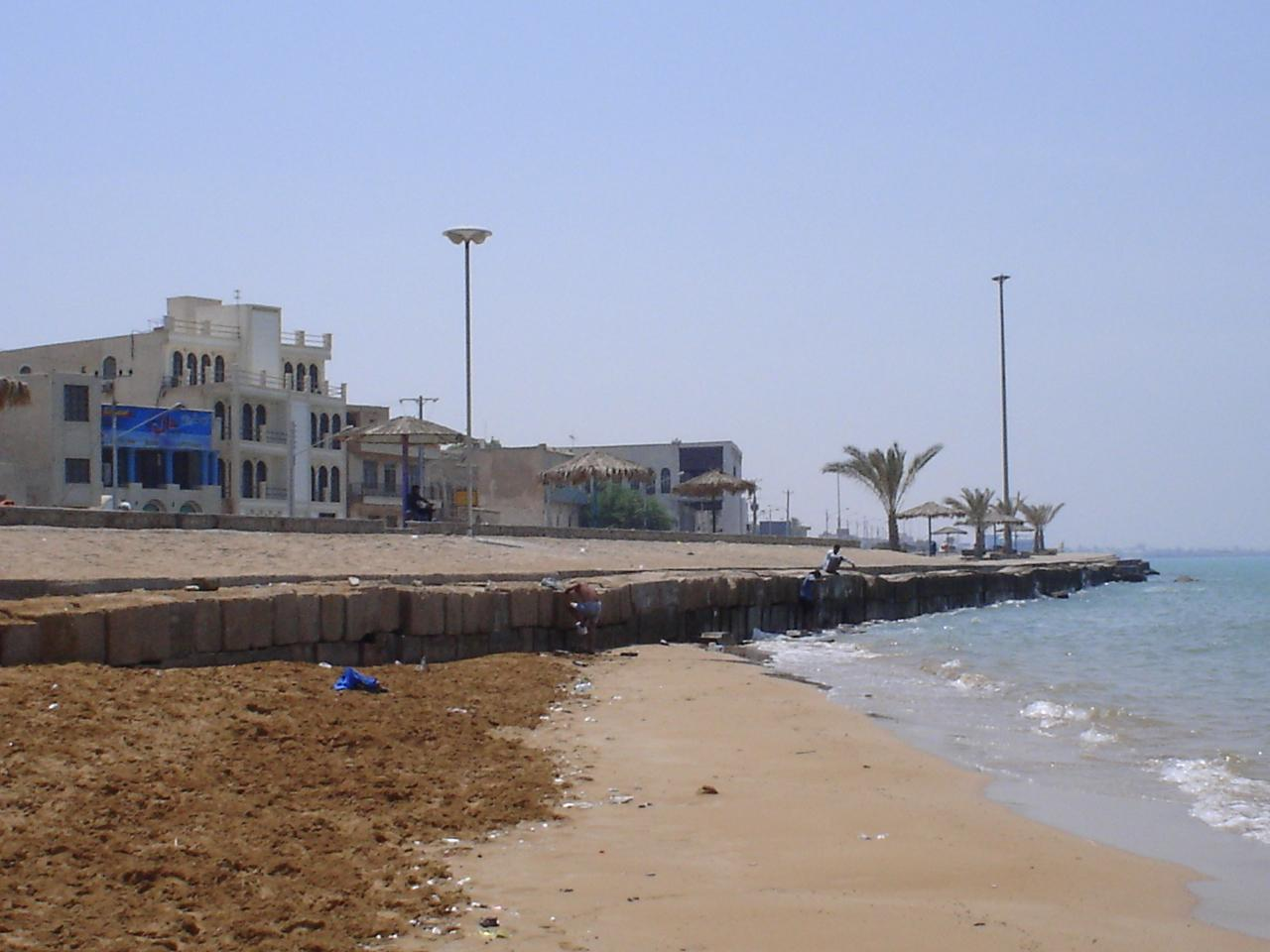 Bushehr in Southern Iran, Persian Gulf Coast